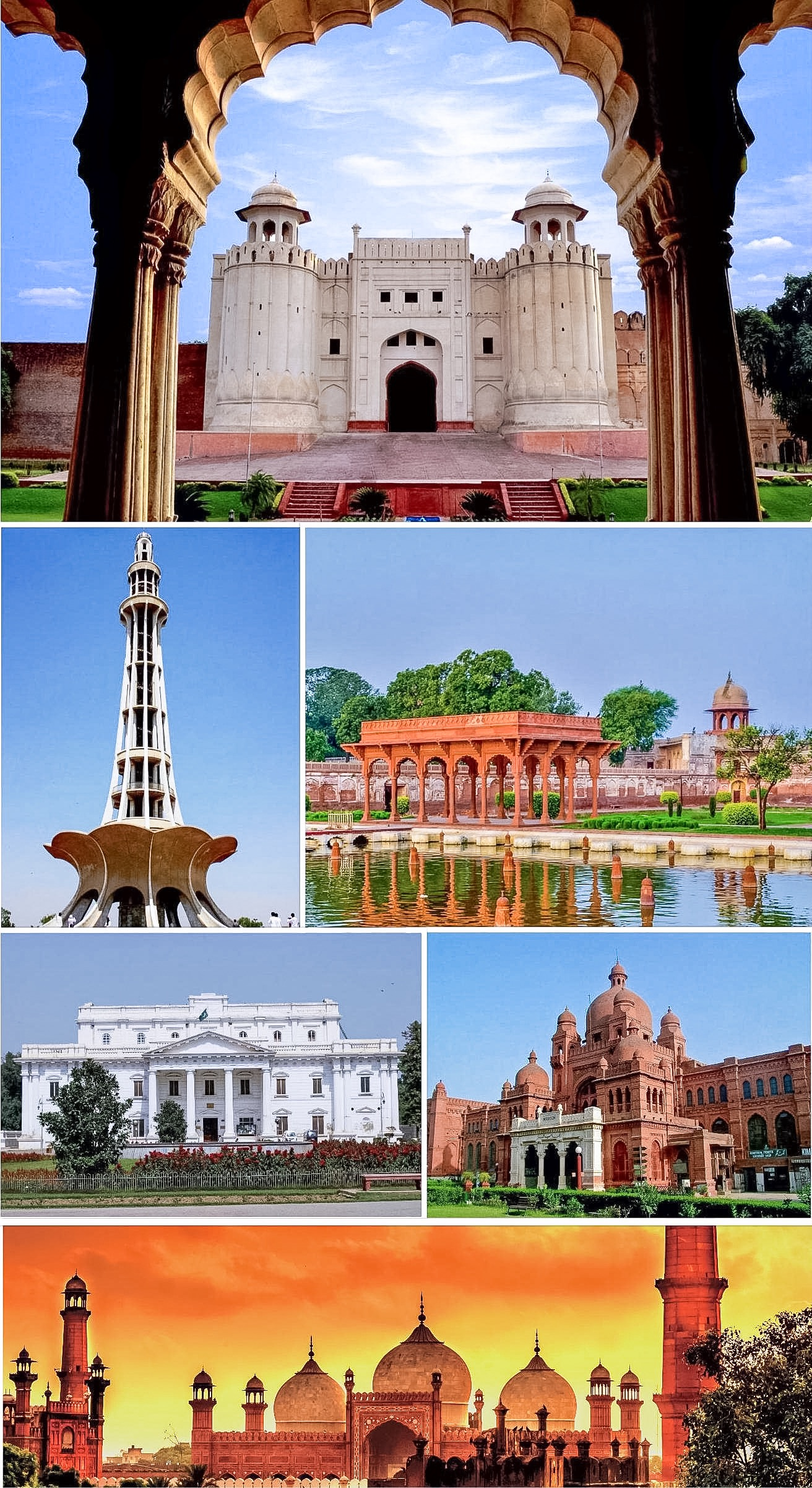 A montage of Lahore